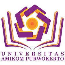 Logo Universitas Amikom Purwokerto